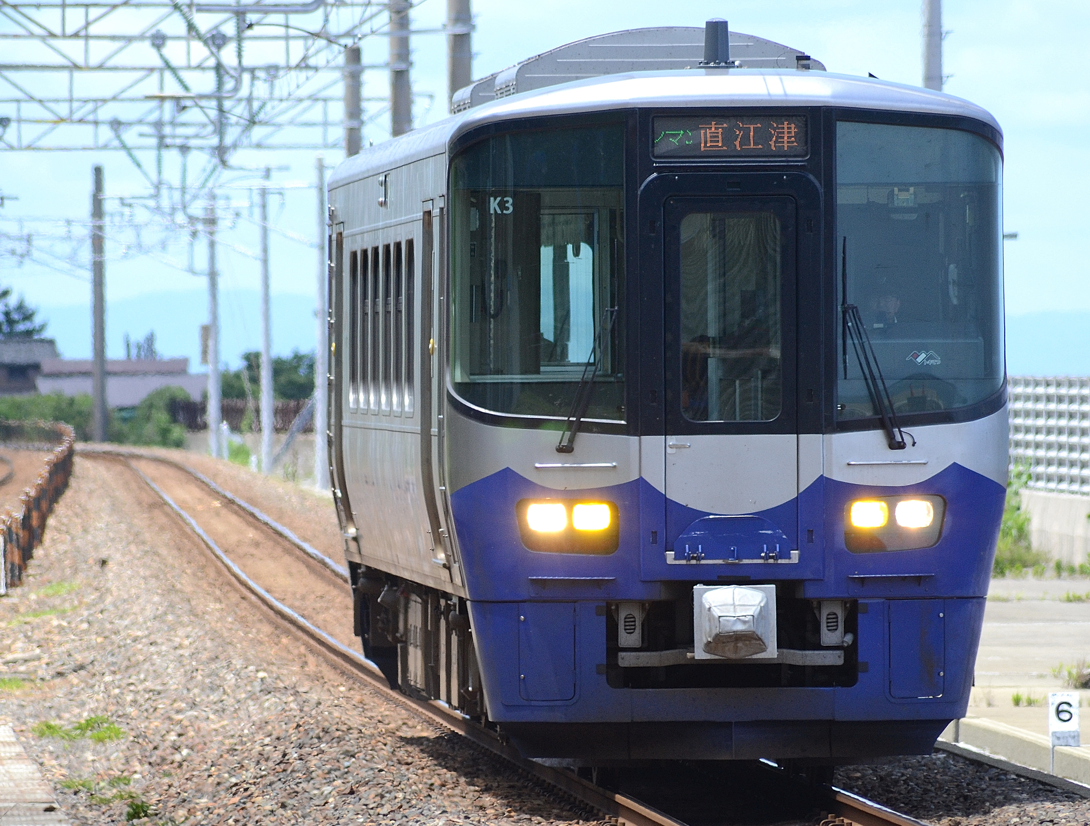 Echigo Tokimeki Railway ET122 diesel car unit K3 approaching Ichiburi Station on the Nihonkai Hisui Line